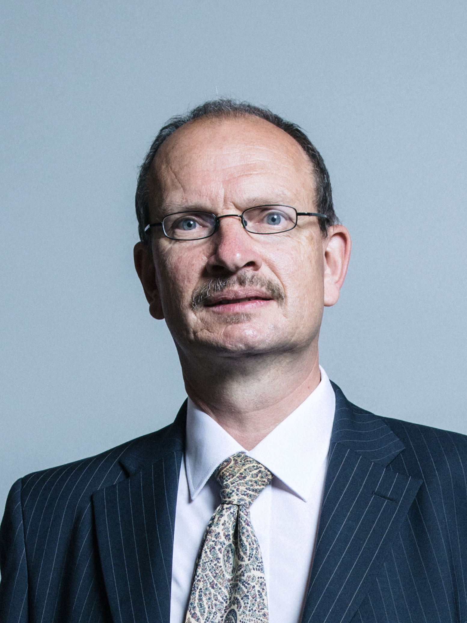 Official Parliamentary photograph of Sandy Martin MP. For confirmation of licence